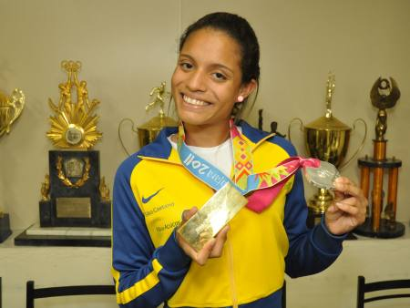 Atleta Barbara faria de oliveira